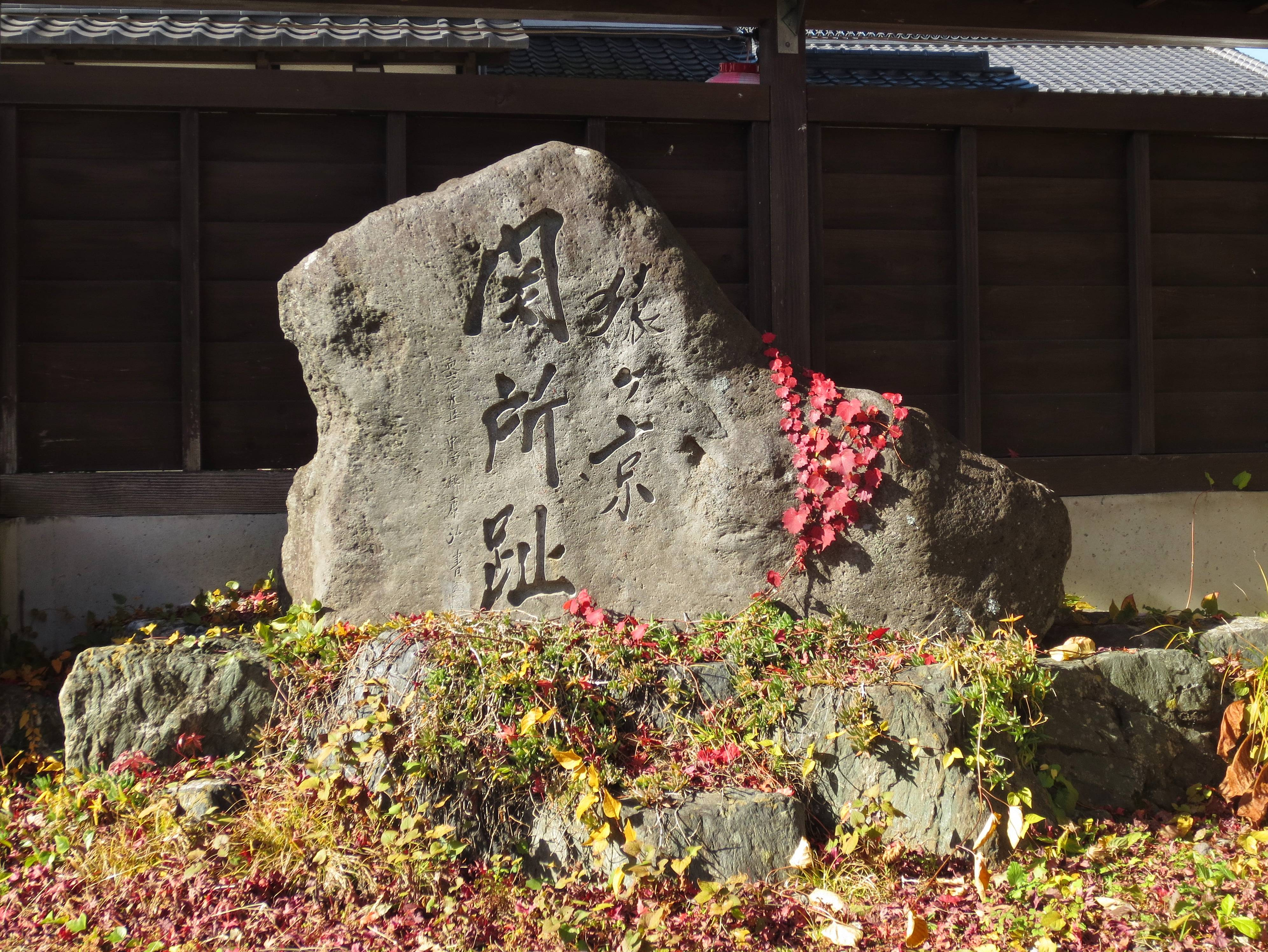 Sarugakyo Check Station Museum.